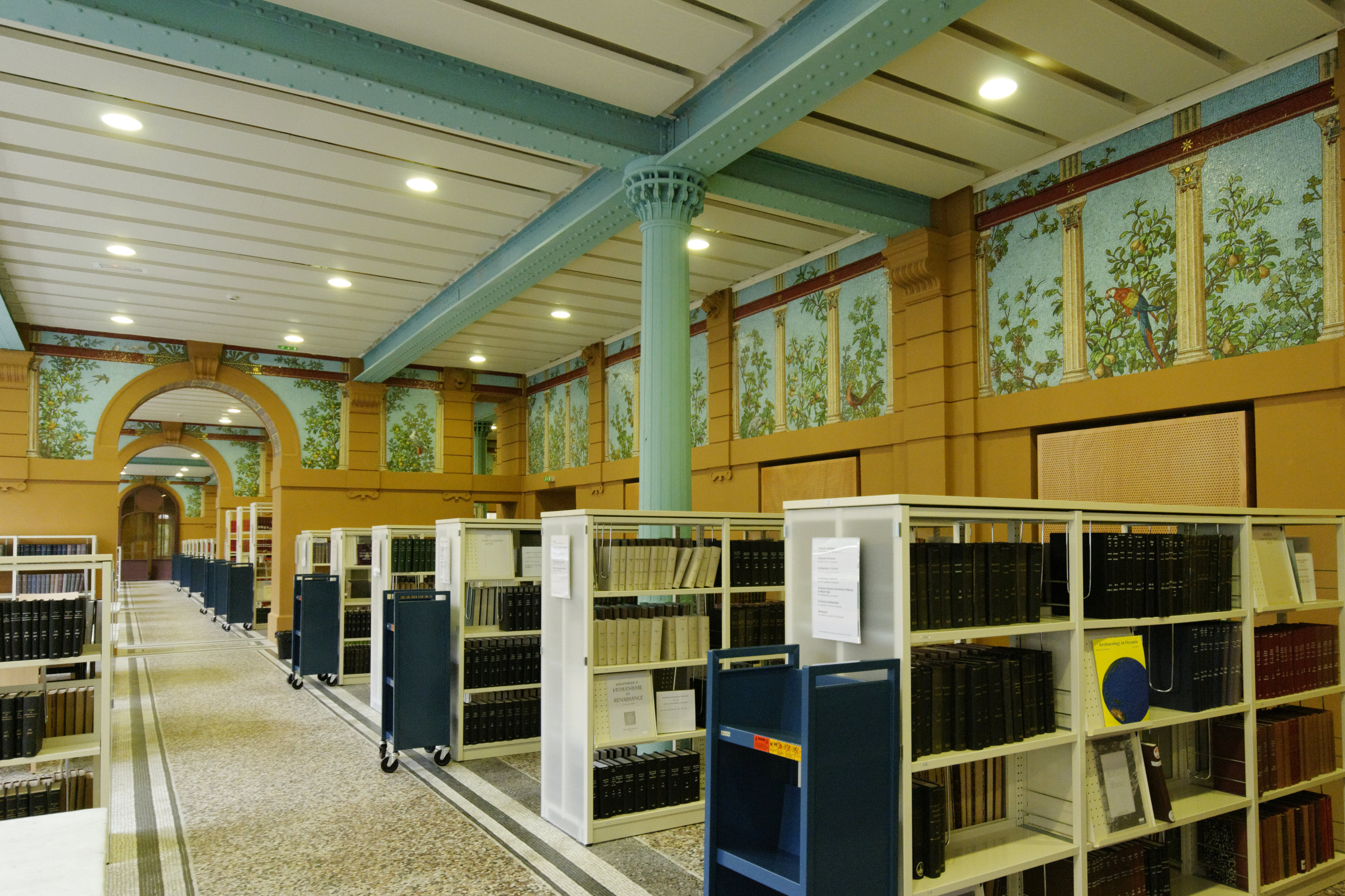 Dining hall room of the Sainte-Barbe library, Paris.